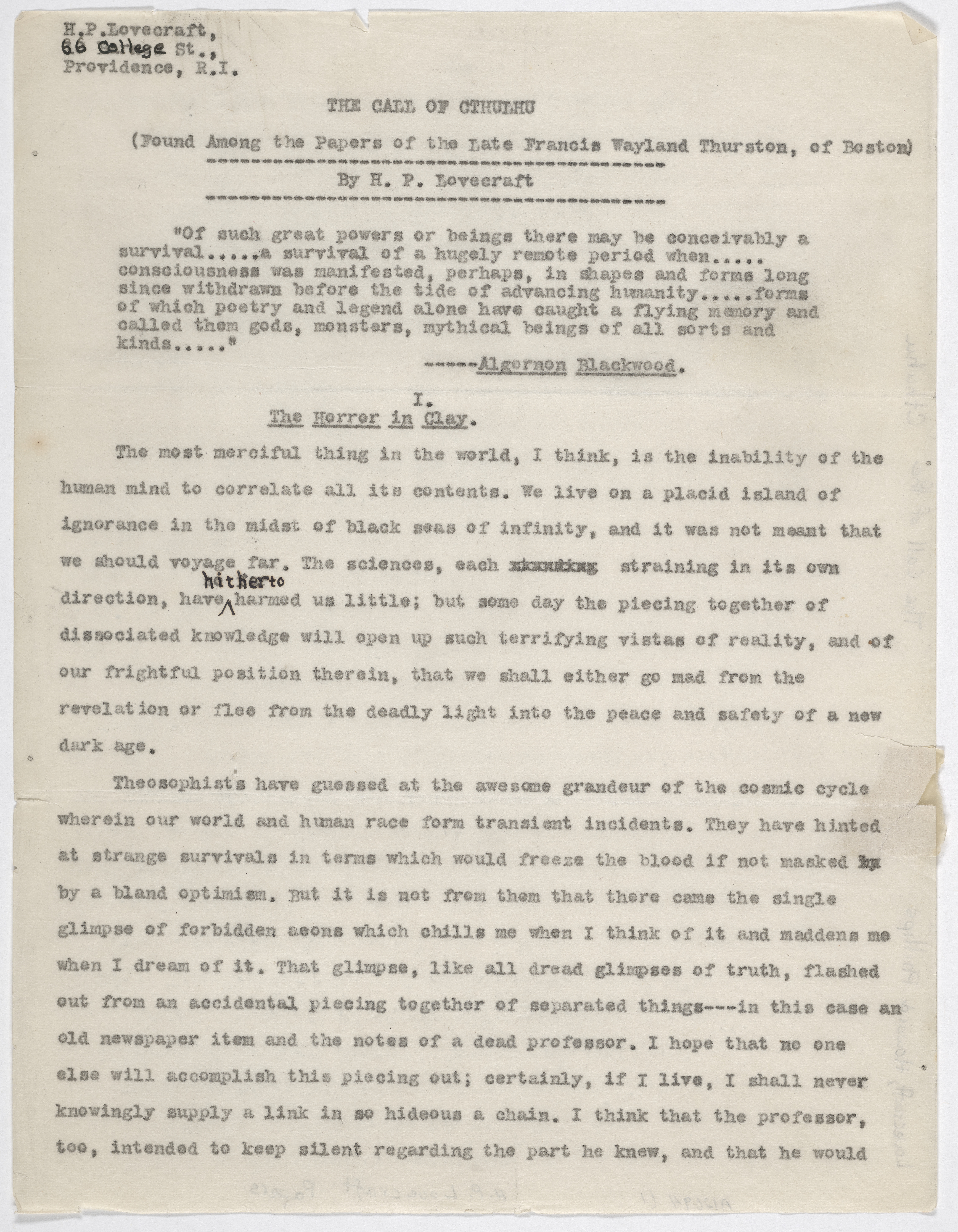 First page of the manuscript The Call of Cthulhu.